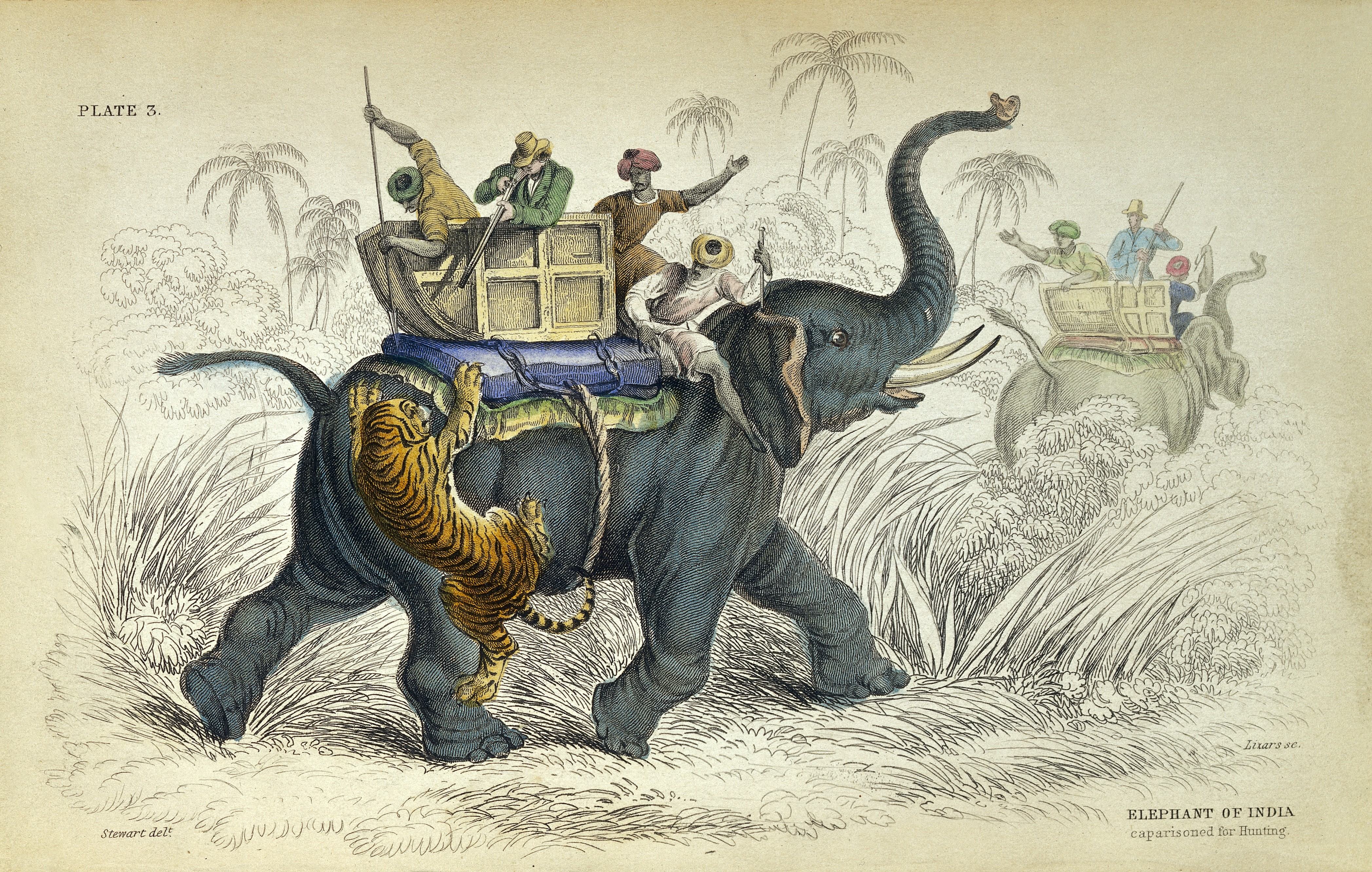 Elephant of India caparisoned for hunting (print: Edinburgh : [W.H. Lizars, etc.], 1836) Rare Books Keywords: ELEPHANT; HUNTING; India; Elephants